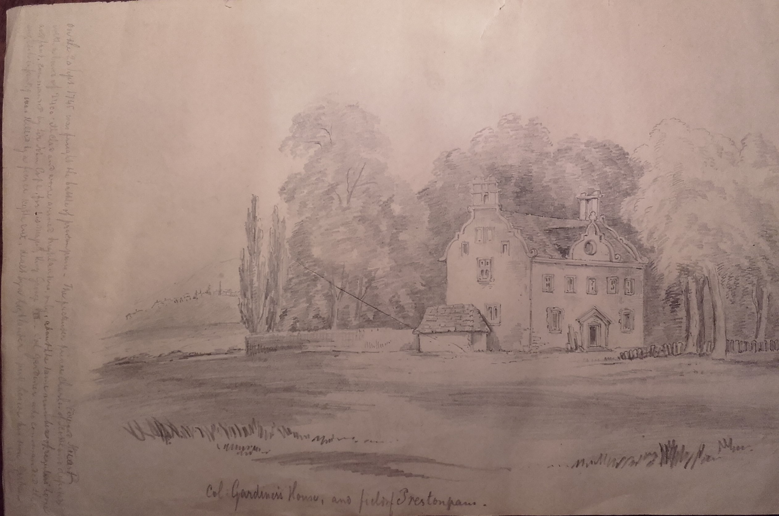 The manor after 1745. On the left side four lines relate the death of colonel James Gardiner.